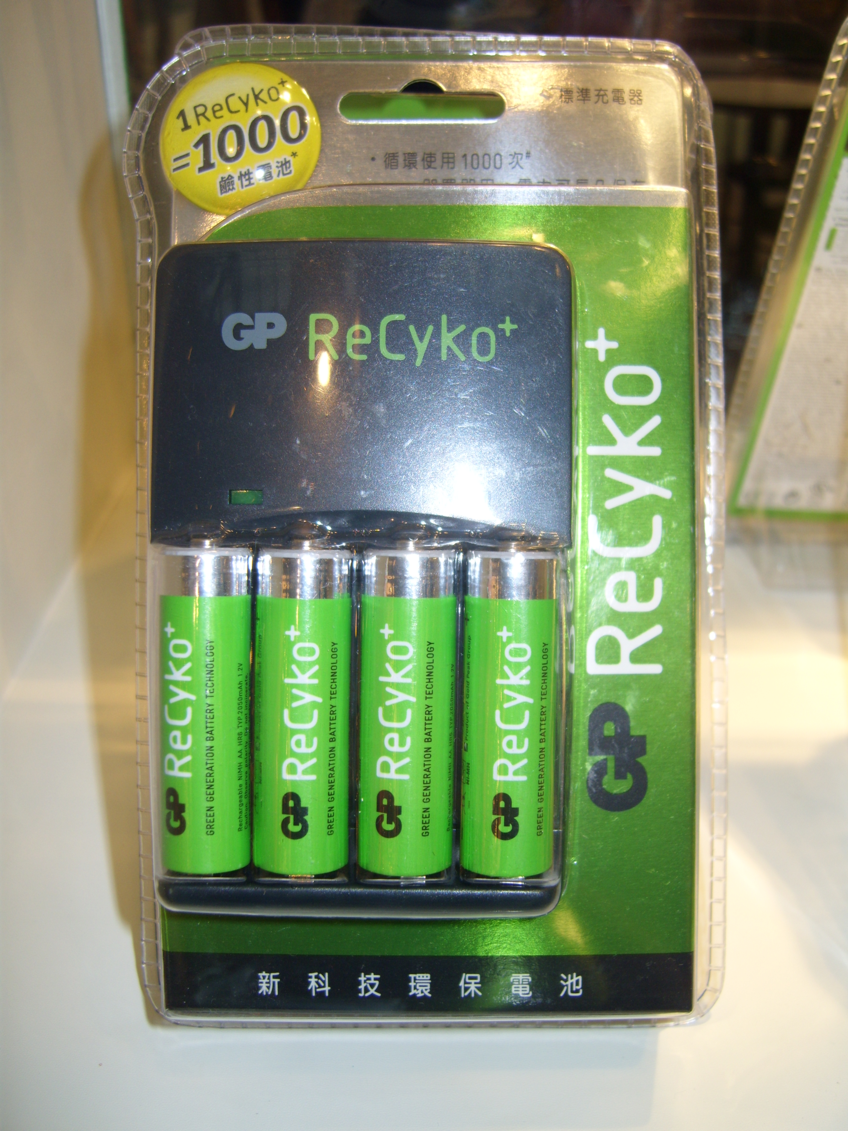 2007 TAITRONICS Autumn: GP ReCyko+ rechargeable batteries and specified recharger.